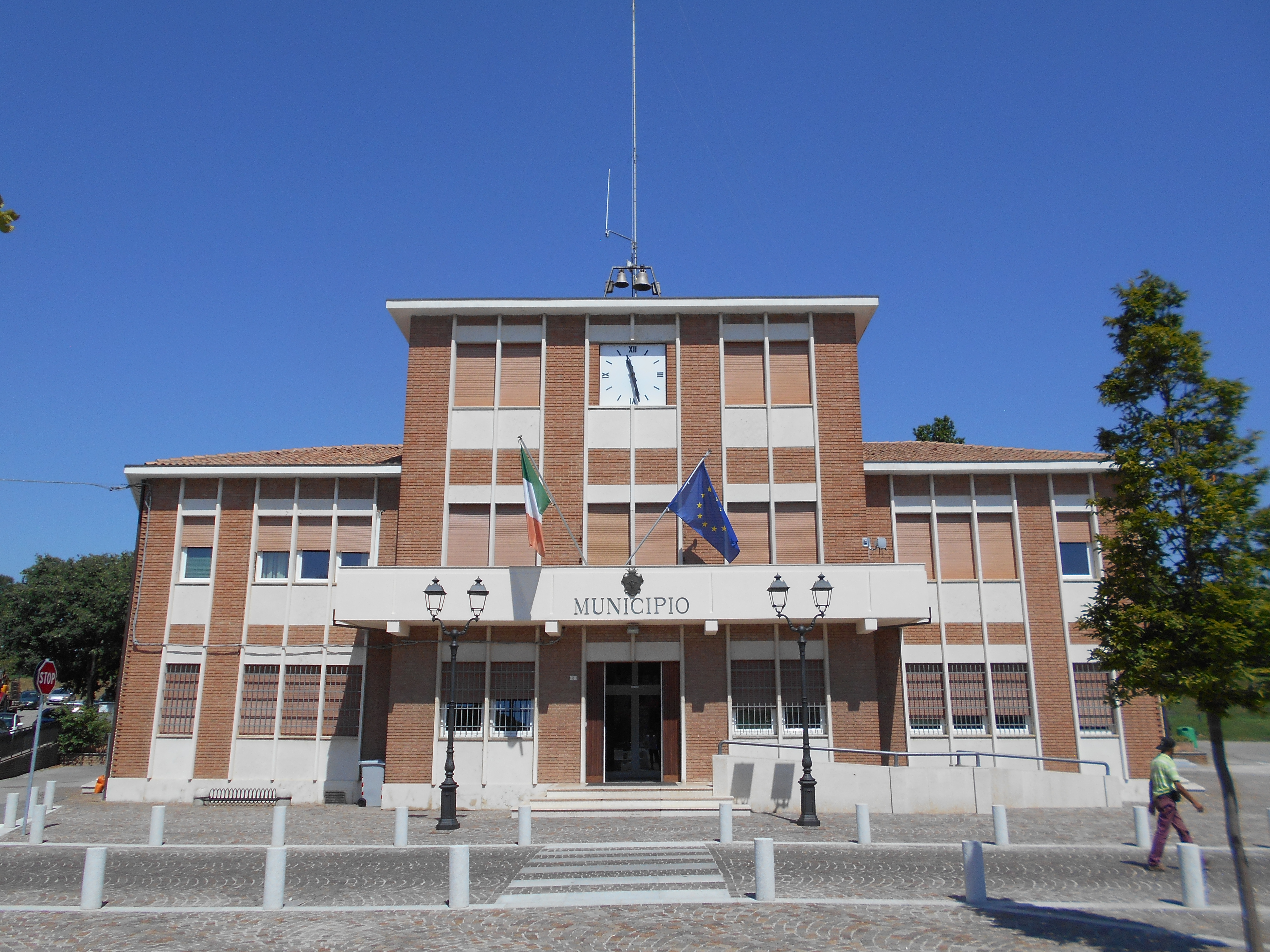 town hall, Mesola